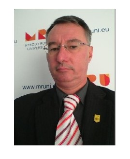 Vladislav B. Sotirovic, Ph.D.Professor at Mykolas Romeris University, Institute of Political Sciences, Vilnius, Lithuania